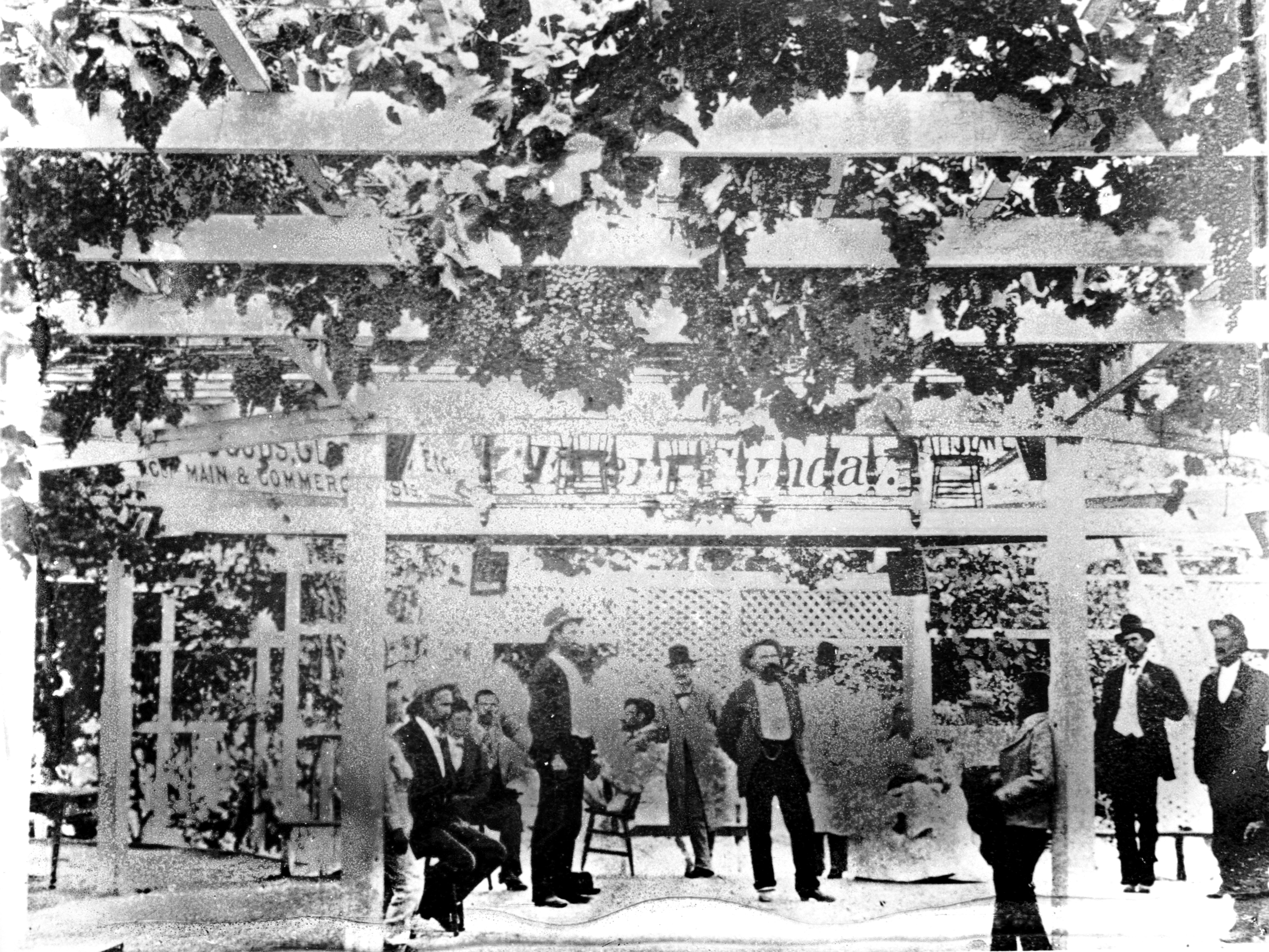 Photograph of a group of about 12 men standing or sitting under an arbor at Washington Gardens, Los Angeles. Grapes and vines hang from the trellis above. Washington Gardens (later Chutes Park) was located on the corner of Washington Street and Main Street and later extended to Grande Avenue. The proprietor was Dave Waldron. Legible signs include:..."oods, gl[...], etc., cor. Main & Commerce Sts.,...Sunday".